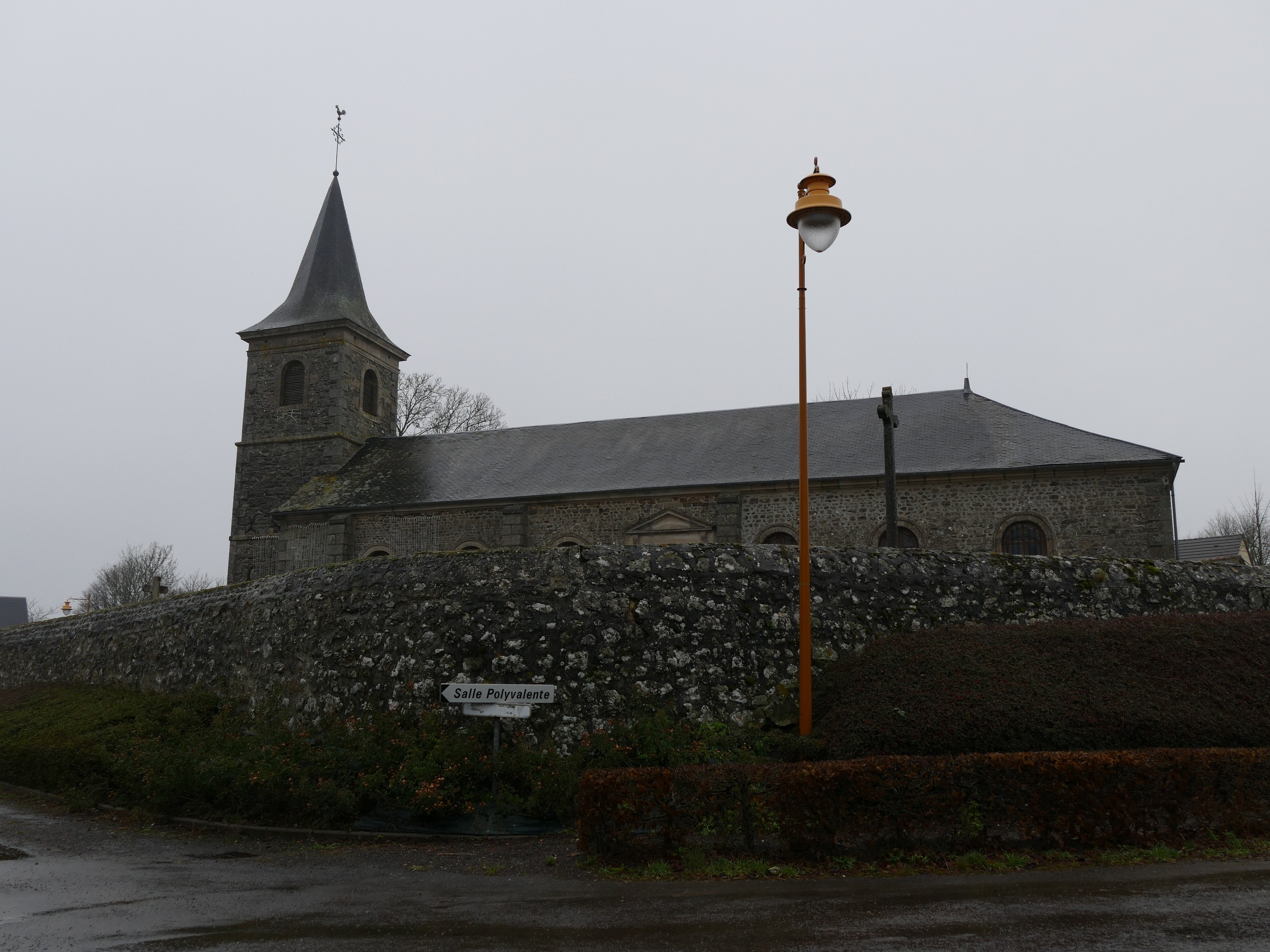 Saint-Andrew's church in Livaie (Orne, Normandie, France).